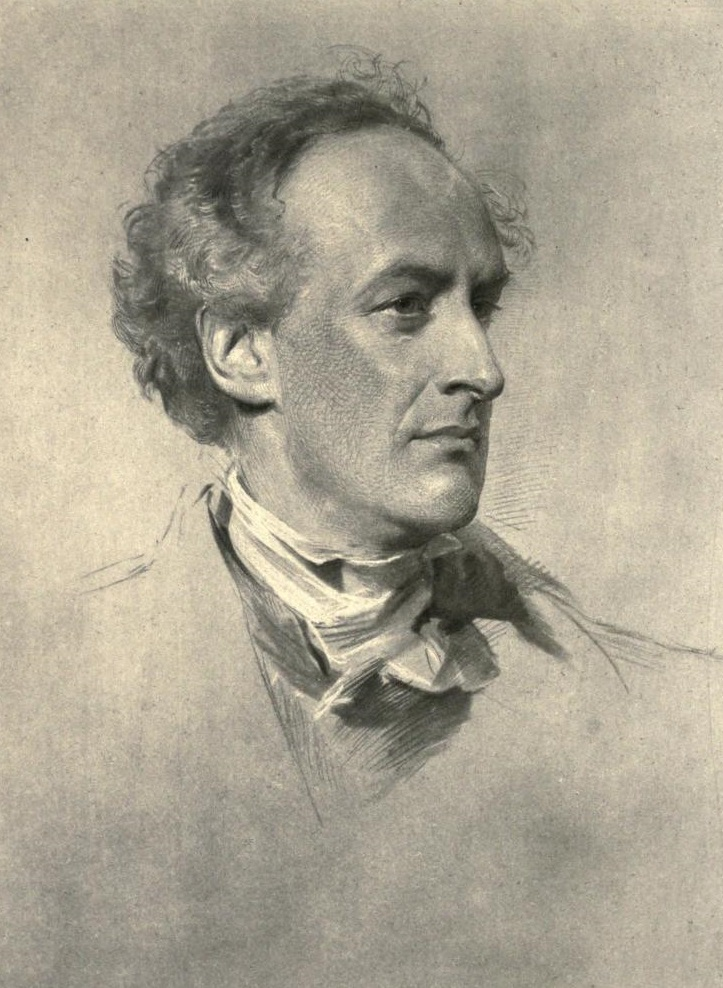 Crayon drawing of Dean Henry George Liddell.